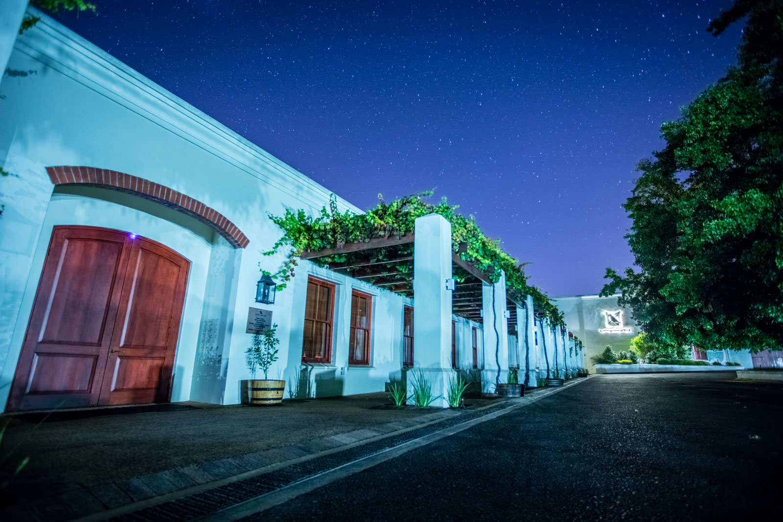 A night view of the Oude Molen Distillery in Grabouw, South Africa.